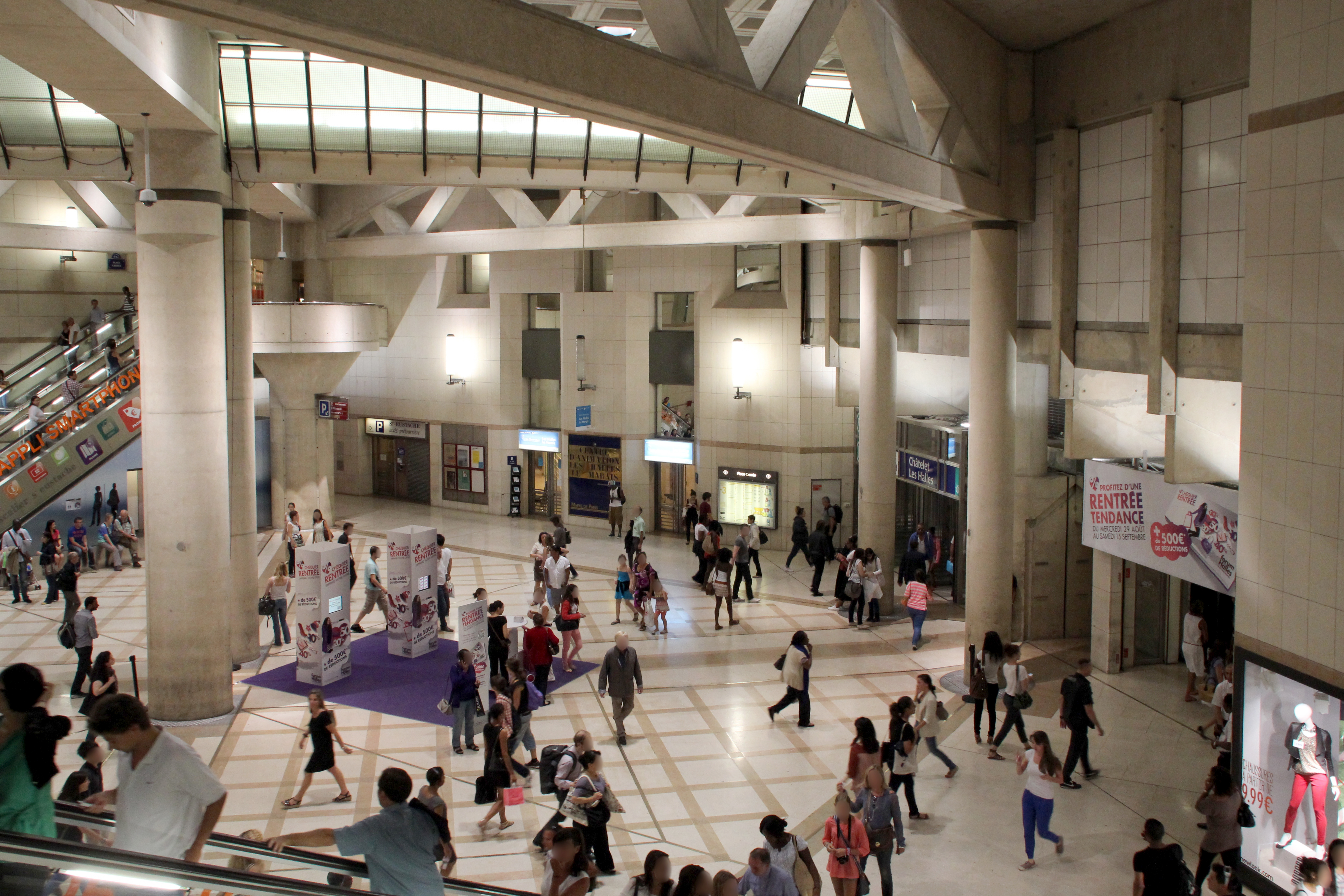 Forum des Halles shopping center in Paris, France.